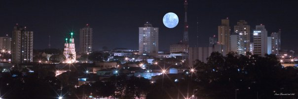 Lins